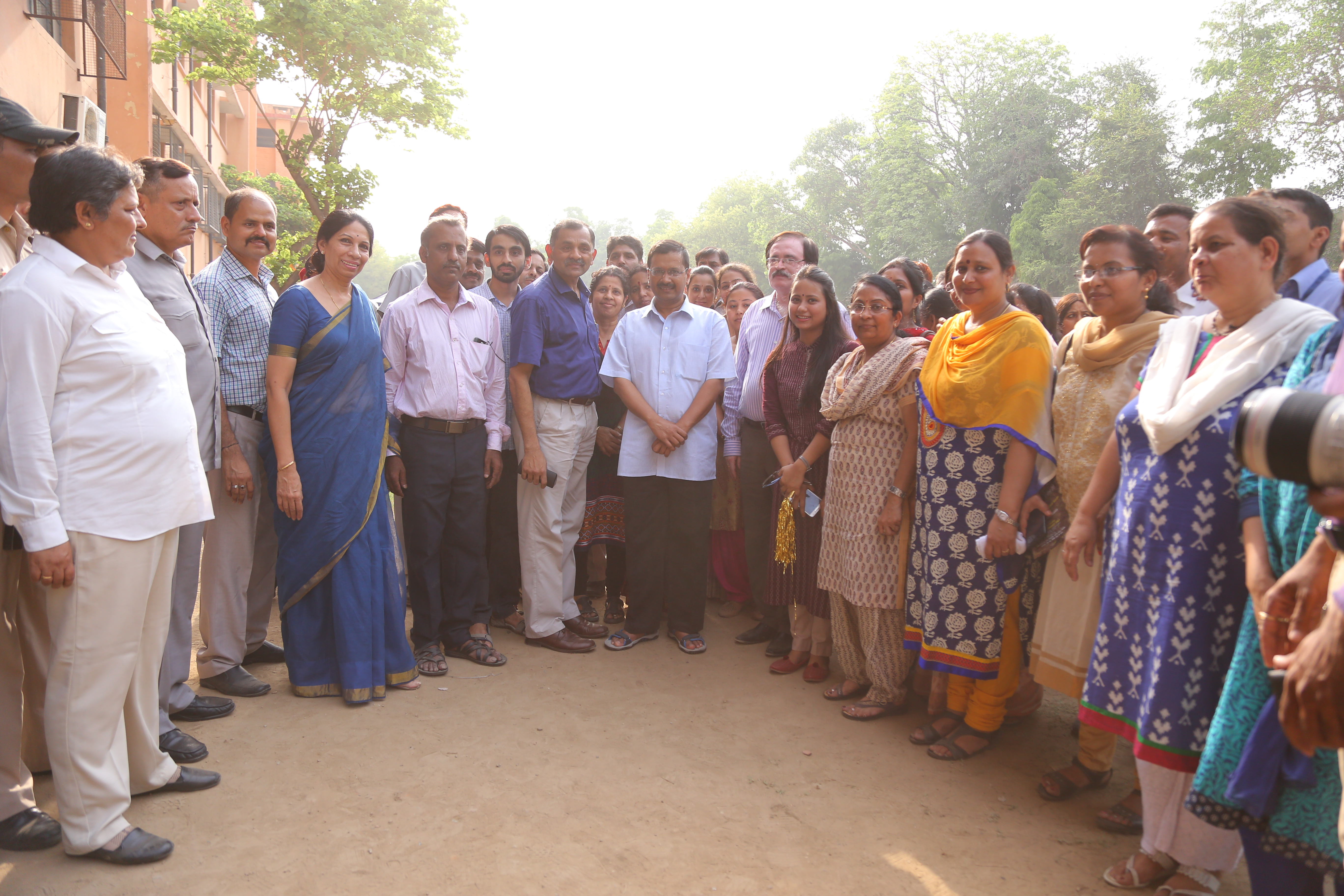 Delhi CM Visited Delhi Kannada school on occ of Pro-Kabbadi